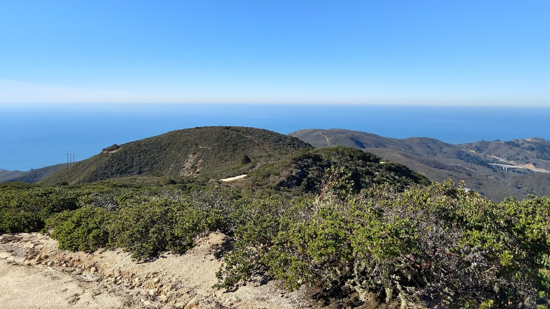 Coastal view from trail in McNee Ranch, part of Montara State Beach, California.